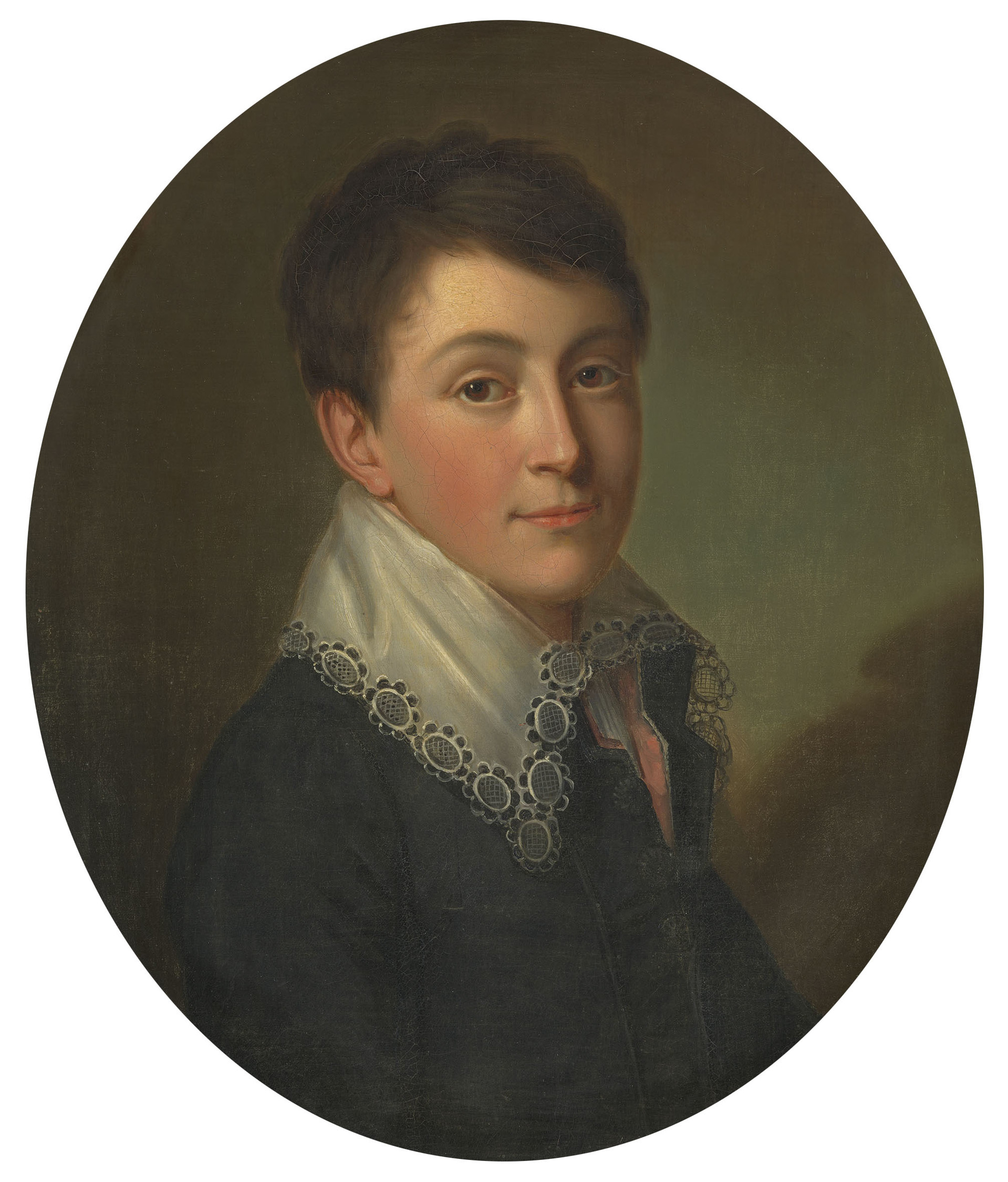 Portrait of Carl Emich, Prince of Leiningen, by Johann Daniel Mottet, 1818